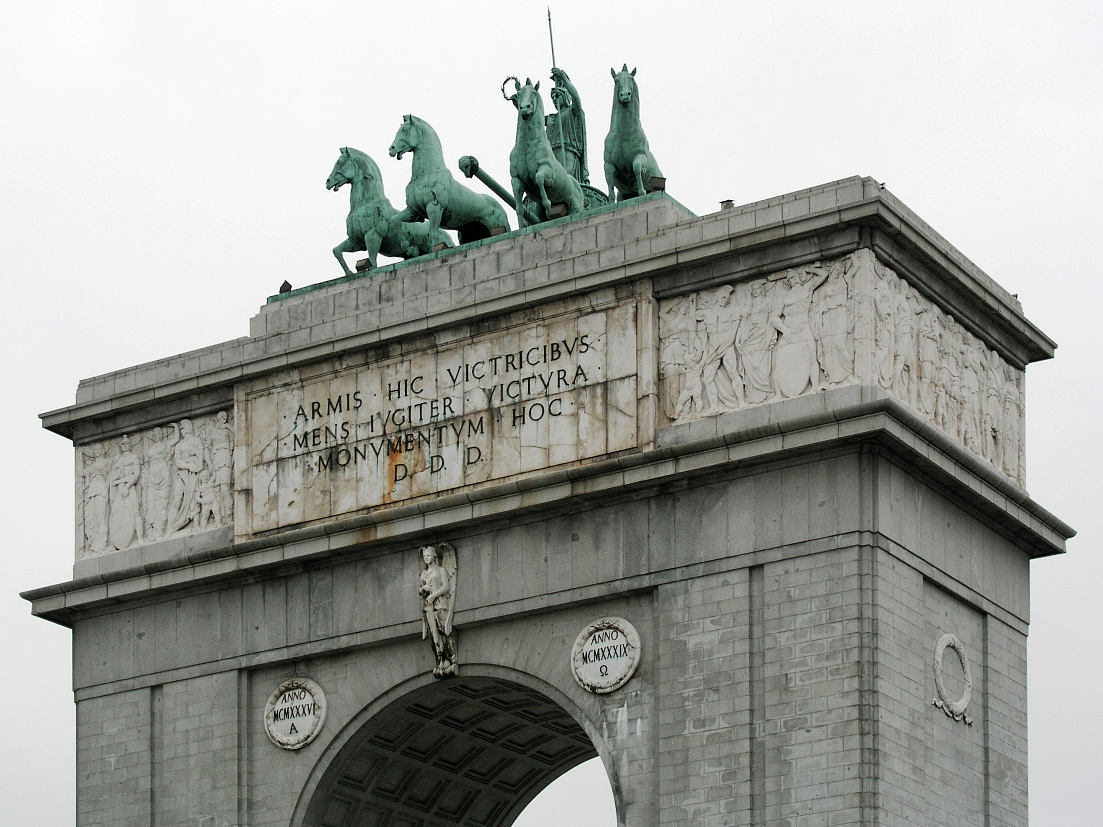 Arco de la Victoria, Moncloa, Madrid, España